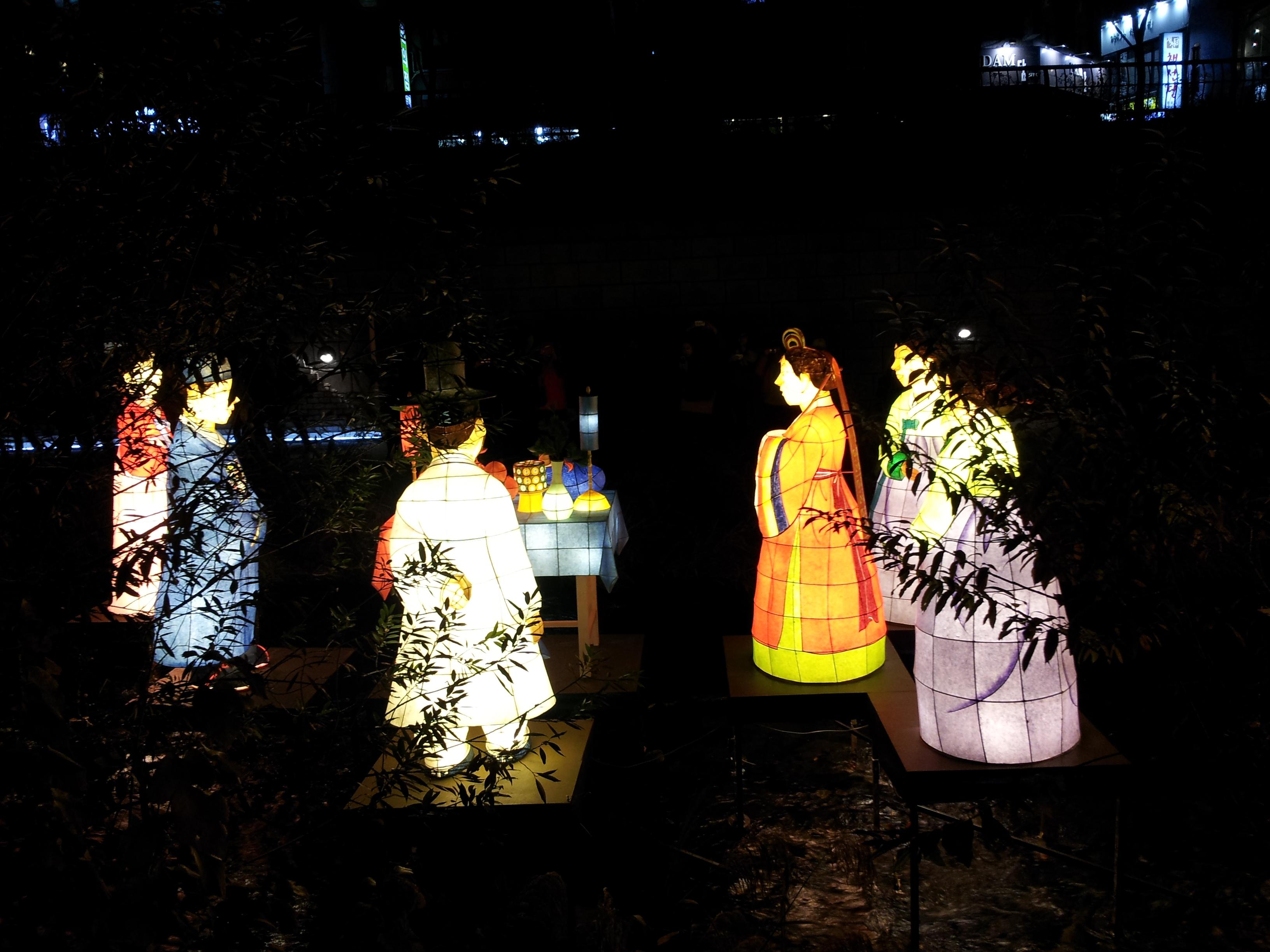 Traditional Wedding